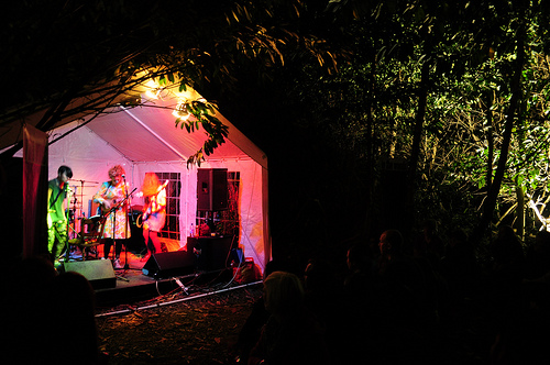 Laurel Lounge